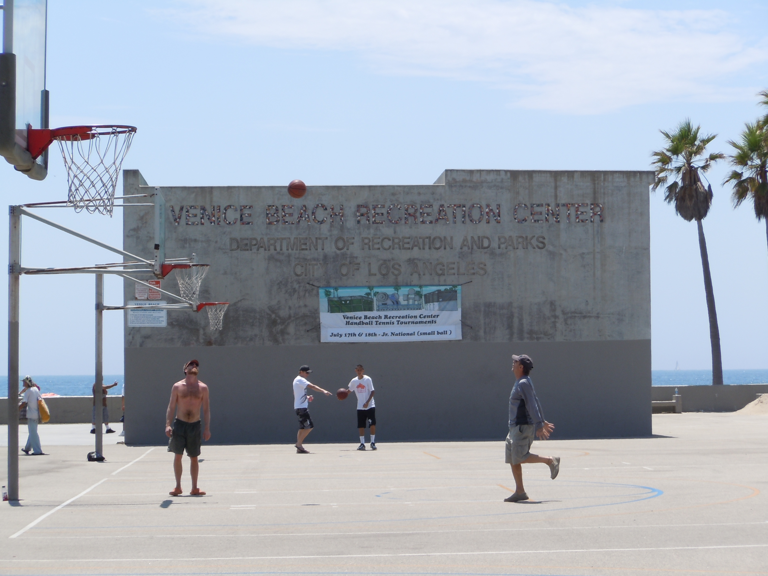 A man practicing basketball at the Venice Beach Recreation Center in Venice, California .